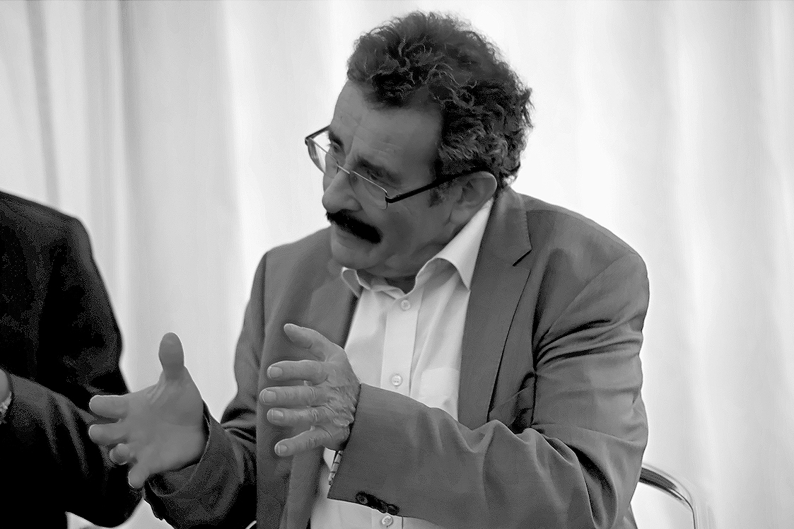 Professor Robert Winston, Cheltenham Science Festival, 2011